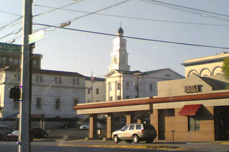 A view the historic courthouse building in downtown Winchester, Clark County, Kentucky, United States